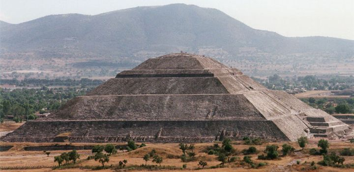 Pyramid of the Sun Teotihuacán, Mexico, taken from the Pyramid of the Moon